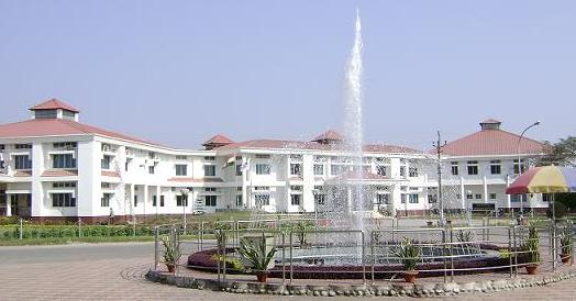 Main View, Tezpur University.